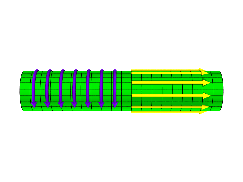 A schematic drawing of a Z-Pinch. A Z pinch has a current in the Z direction causing a B field in the direction by Ampere's law. Here the current is shown in Yellow and the B-field it generates is shown in purple.Createrd By Dave Burke in POV-Ray, September 2006